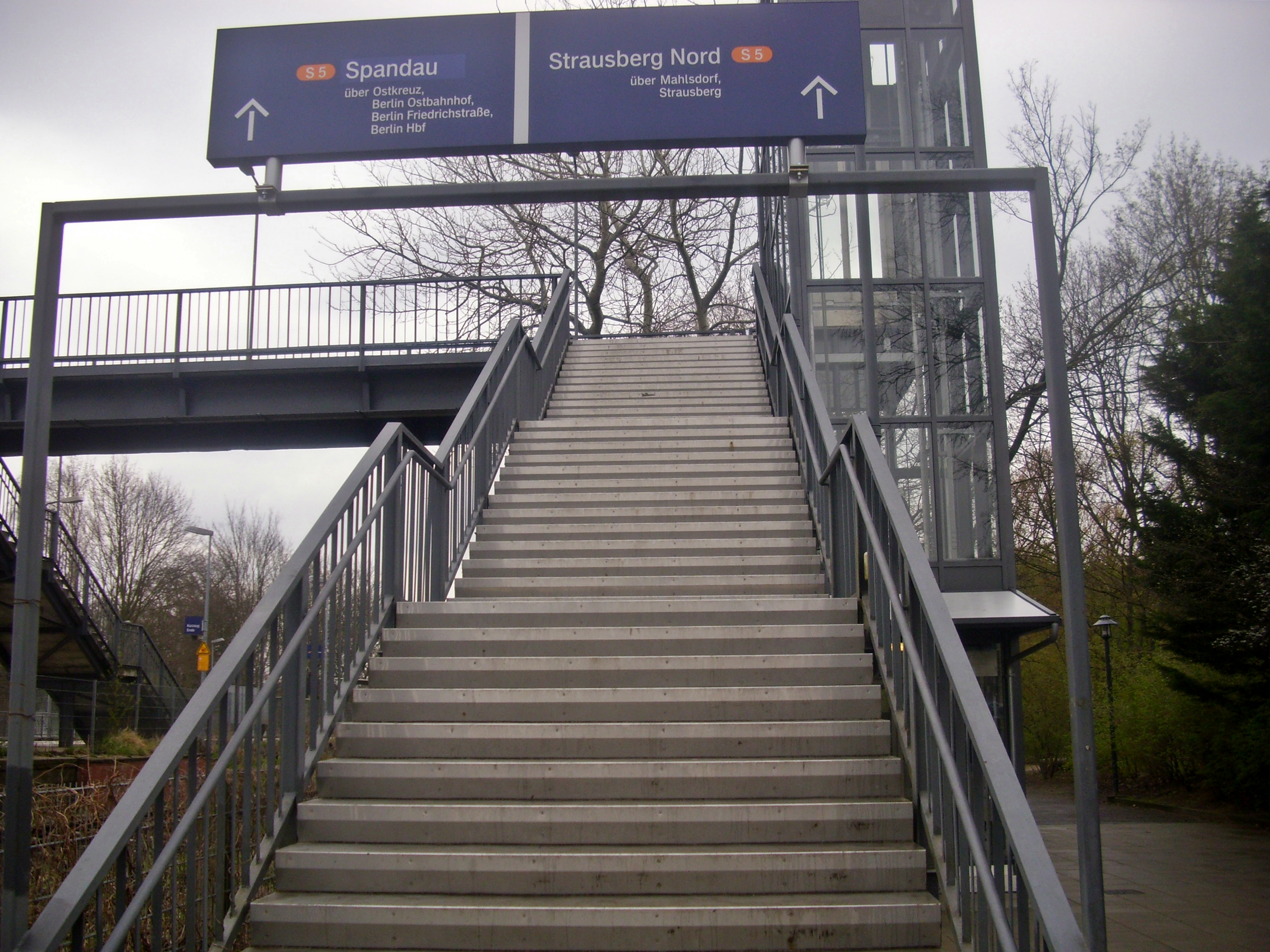 The train station in Berlin Biesdorf